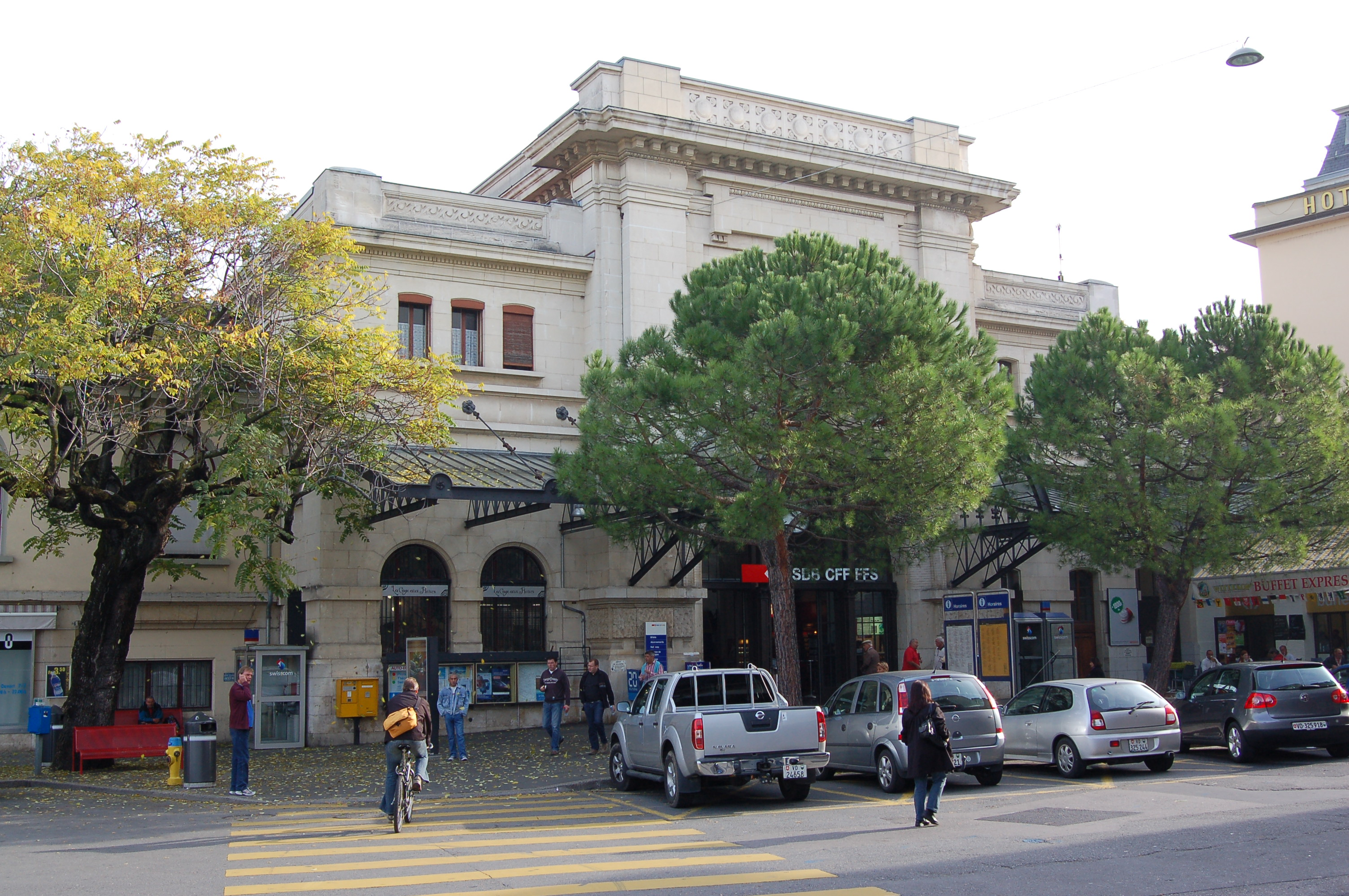 Entrance to Vevey railway station, Vaud, Switzerland